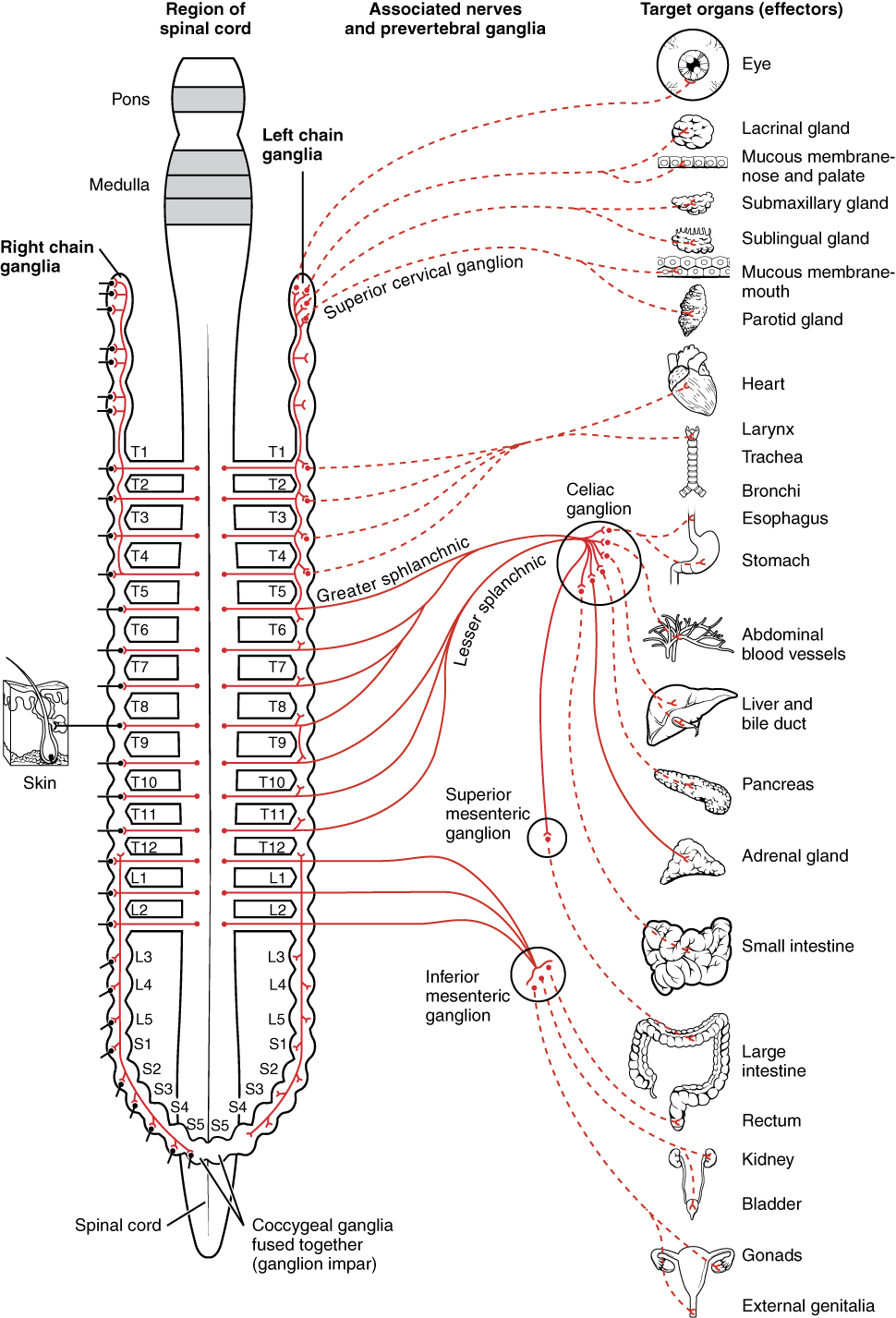 Illustration from Anatomy & Physiology, Connexions Web site. Jun 19, 2013.